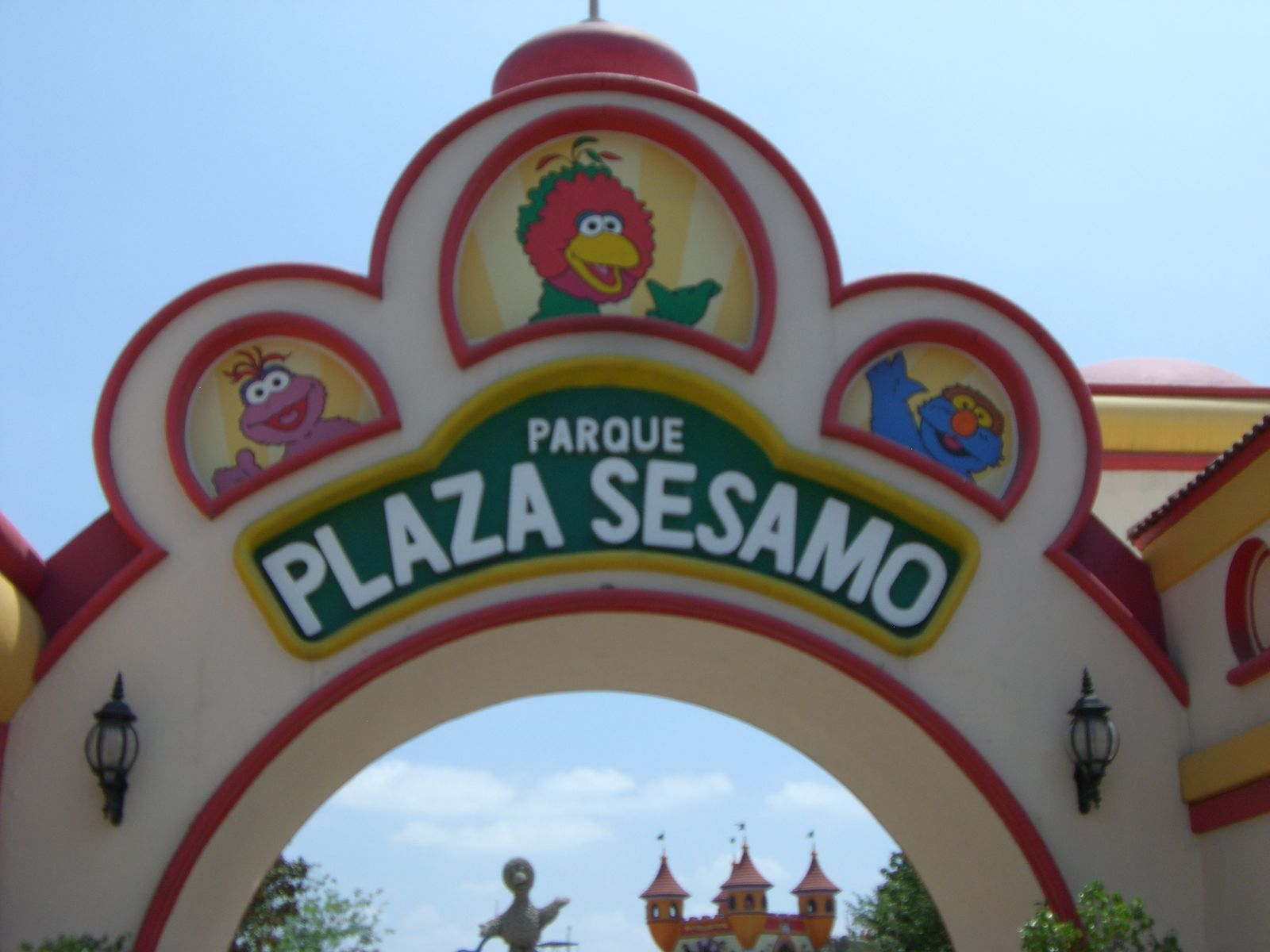 This image takes me one Sunday when I visited the park on a Sunday this month with a 12-megapixel Sony camera